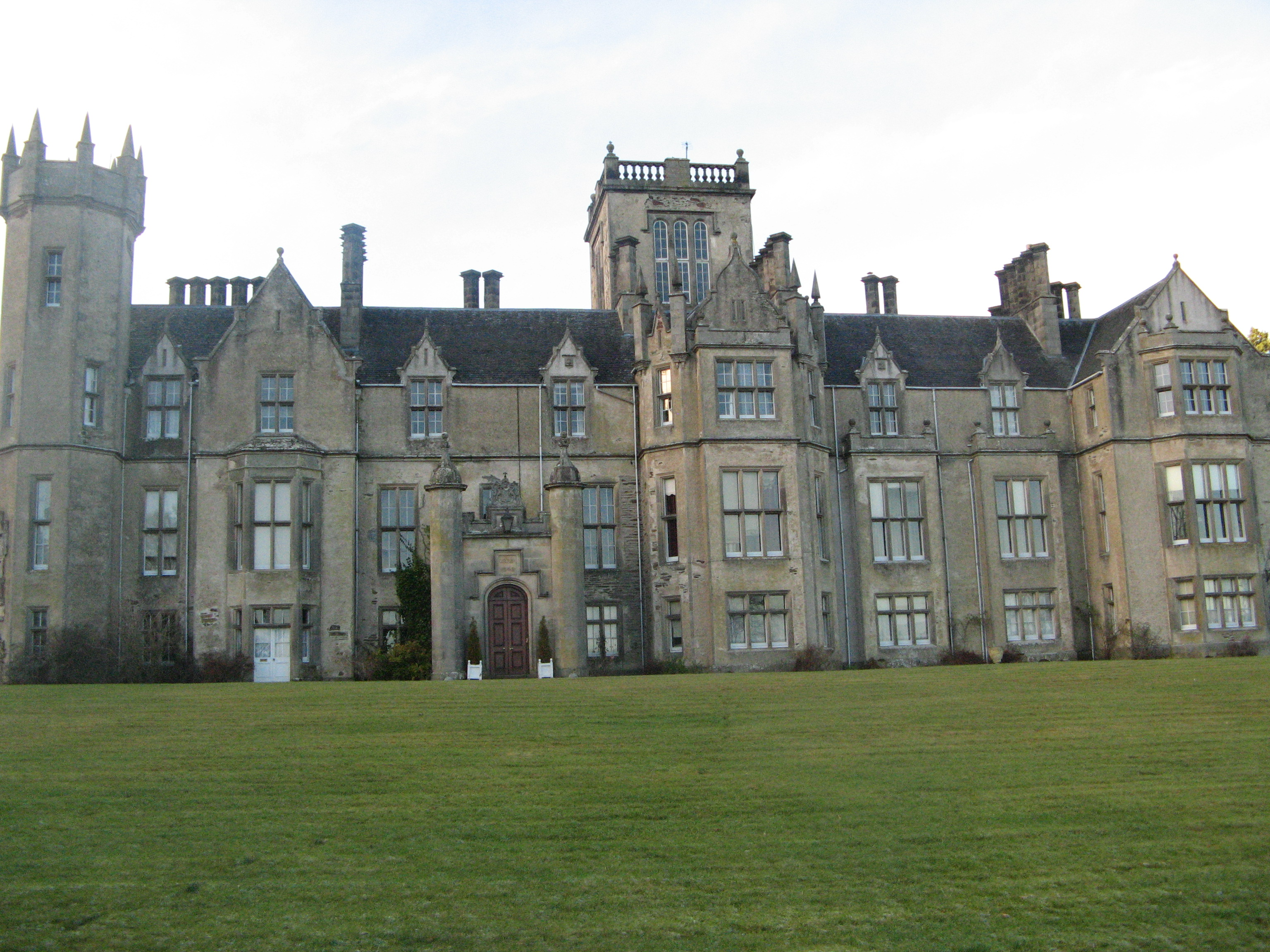 Forglen House, January 2014